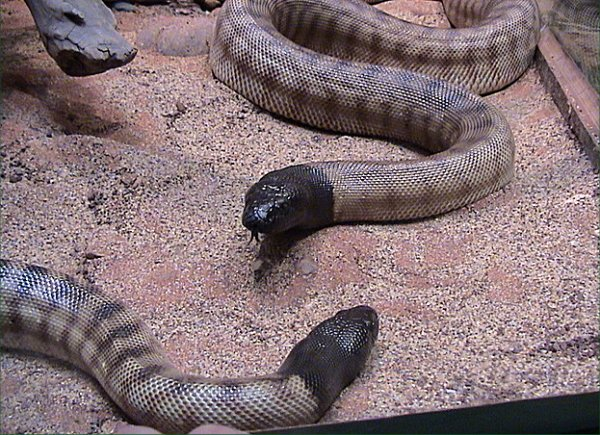 Blackheaded python (Aspidites melanocephalus)